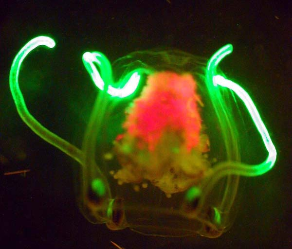 An unidentified jellyfish collected in the morning from a small net deployed over the side of the vessel